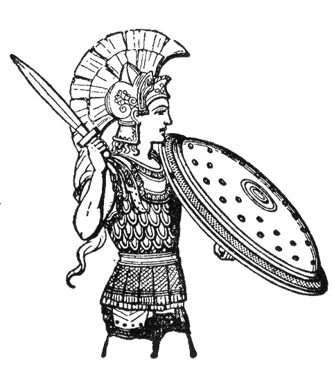 Greek armor (art).